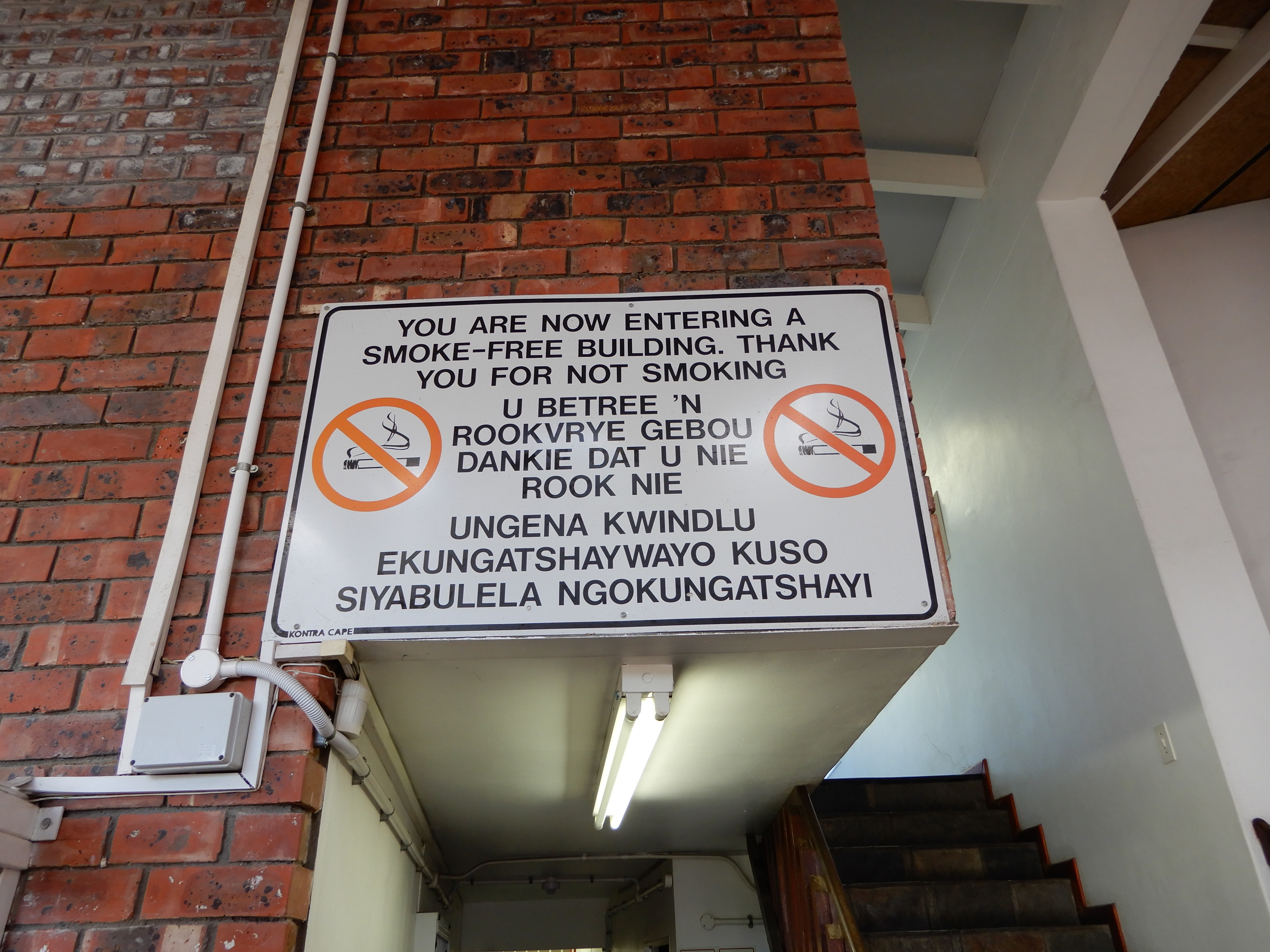 You are now entering a smoke-free building. Thank you for not smoking.